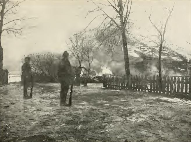 "Pacification". A photo showing the Russian army soldiers burning a house of a peasant rebel in Georgia